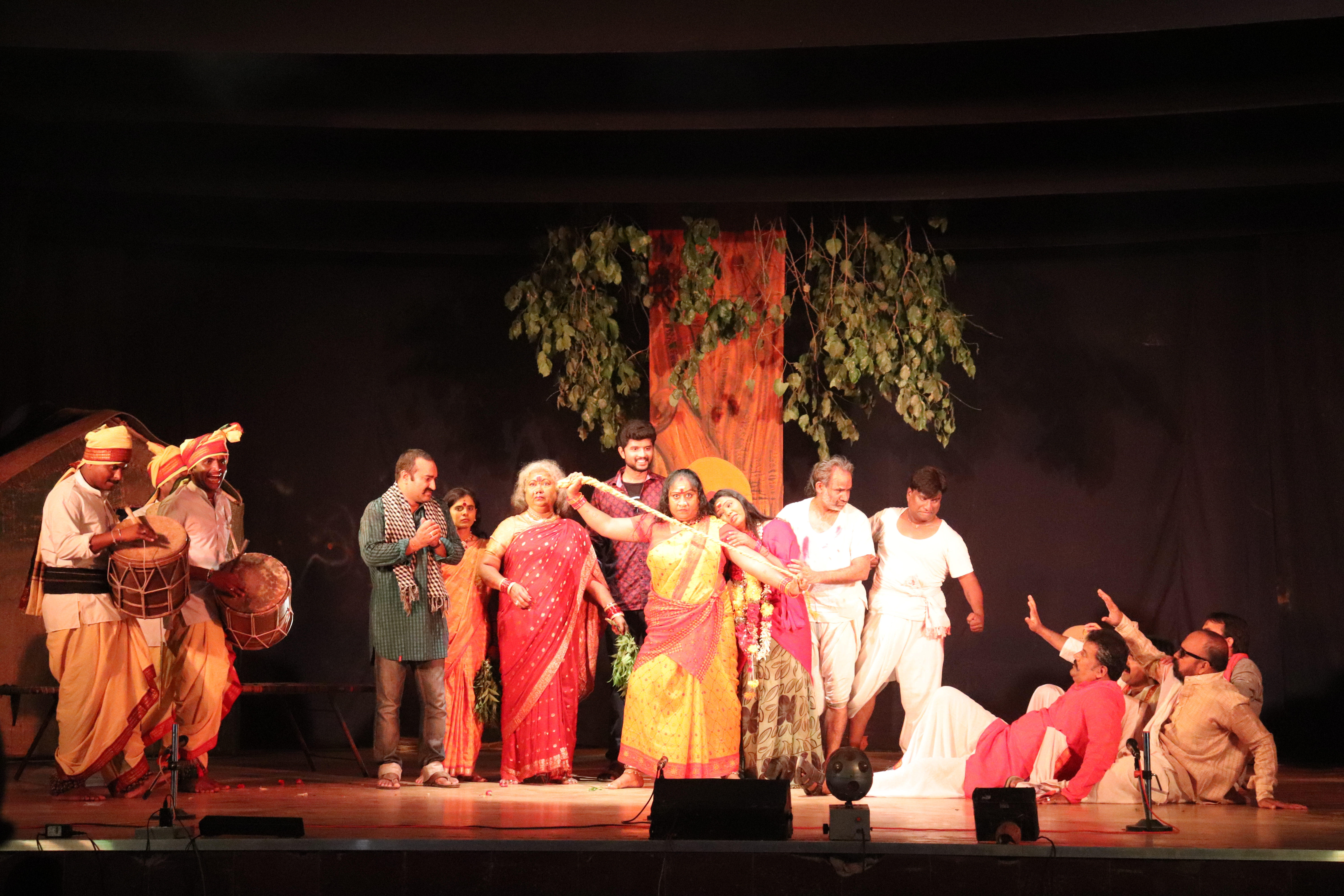 Tegaram Theatre Play Climax Scene Performance in Nandi Theatre Festival - 2017